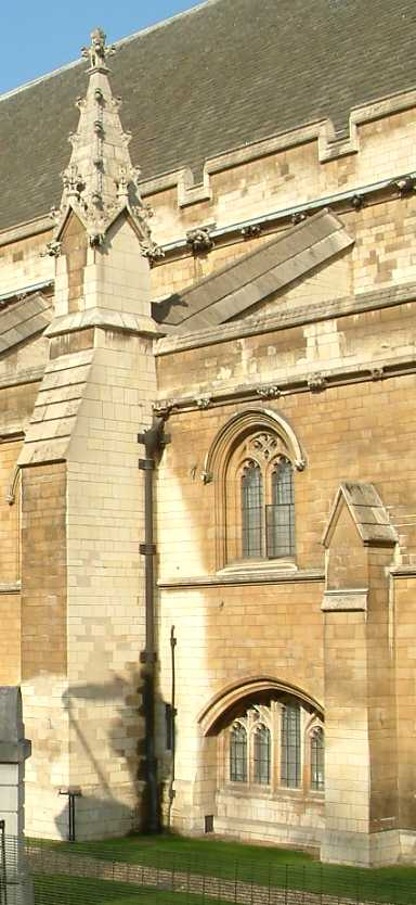 Buttress - Westminster - London - England - Photo by and copyright Tagishsimon - 24th April 2004